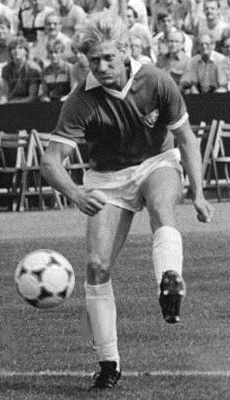 Title: BFC Dynamo - FC Vorwärts Frankfurt-Oder 4:1 Factual corrections and alternative descriptions are encouraged separately from the original description. Additionally errors can be reported at this page to inform the Bundesarchiv. Original historic description: ADN-ZB-Uhlemann-16.8.86-fra-Berlin: Fußball-Oberliga- BFC Dynamo - FC Vorwärts Frankfurt-Oder 4:1- Zweikampf zwischen Michael Schulz (r.,BFC) und Mario Roth (FCV), beim Angriff des BFC im Sportforum Hohenschönhausen.